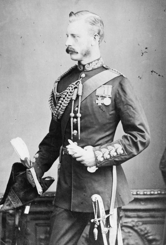 Victoria Cross Winners- Pre 1914 Portrait of Arthur Frederick Pickard, awarded the Victoria Cross: New Zealand, 20 November 1863.